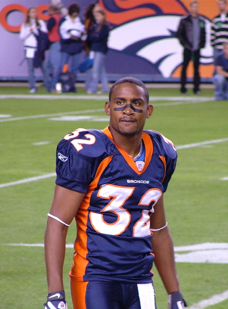 Dre Bly, a player with the Denver Broncos American football team. Photo by Jeffrey Beall